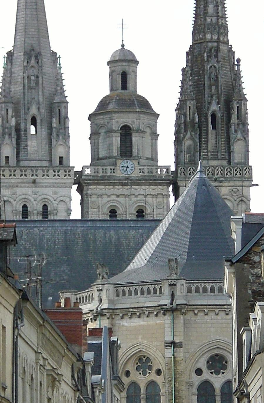 "Rue Saint-Aubin", a street in Angers downtown, Maine-et-Loire, France. The back of Saint Maurice cathedral is in the background.